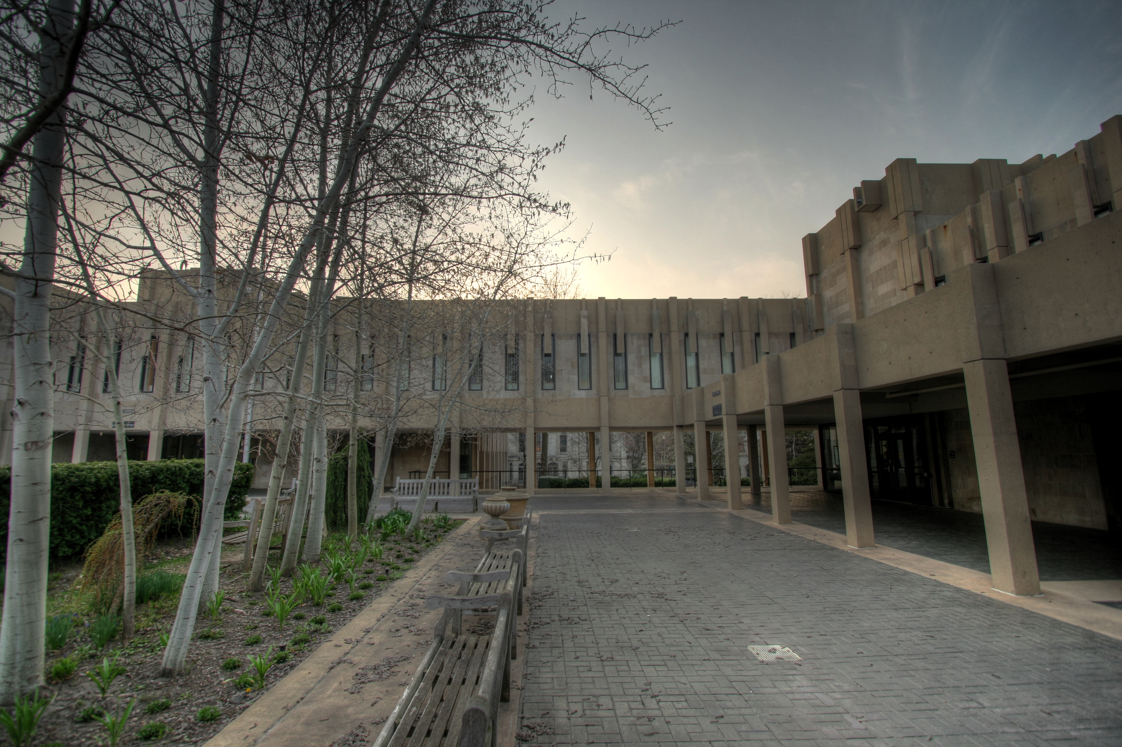 Rebecca Crown Center, Northwestern University